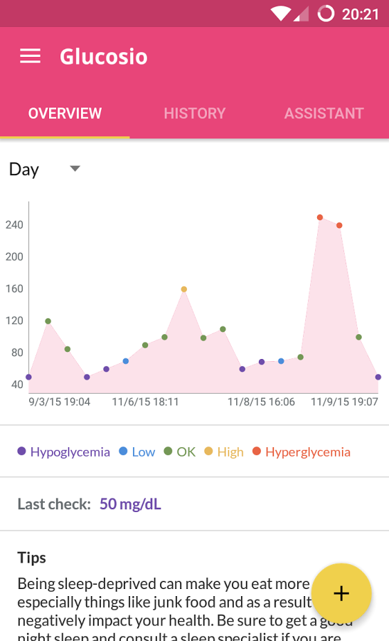 Screenshot of Glucosio for Android